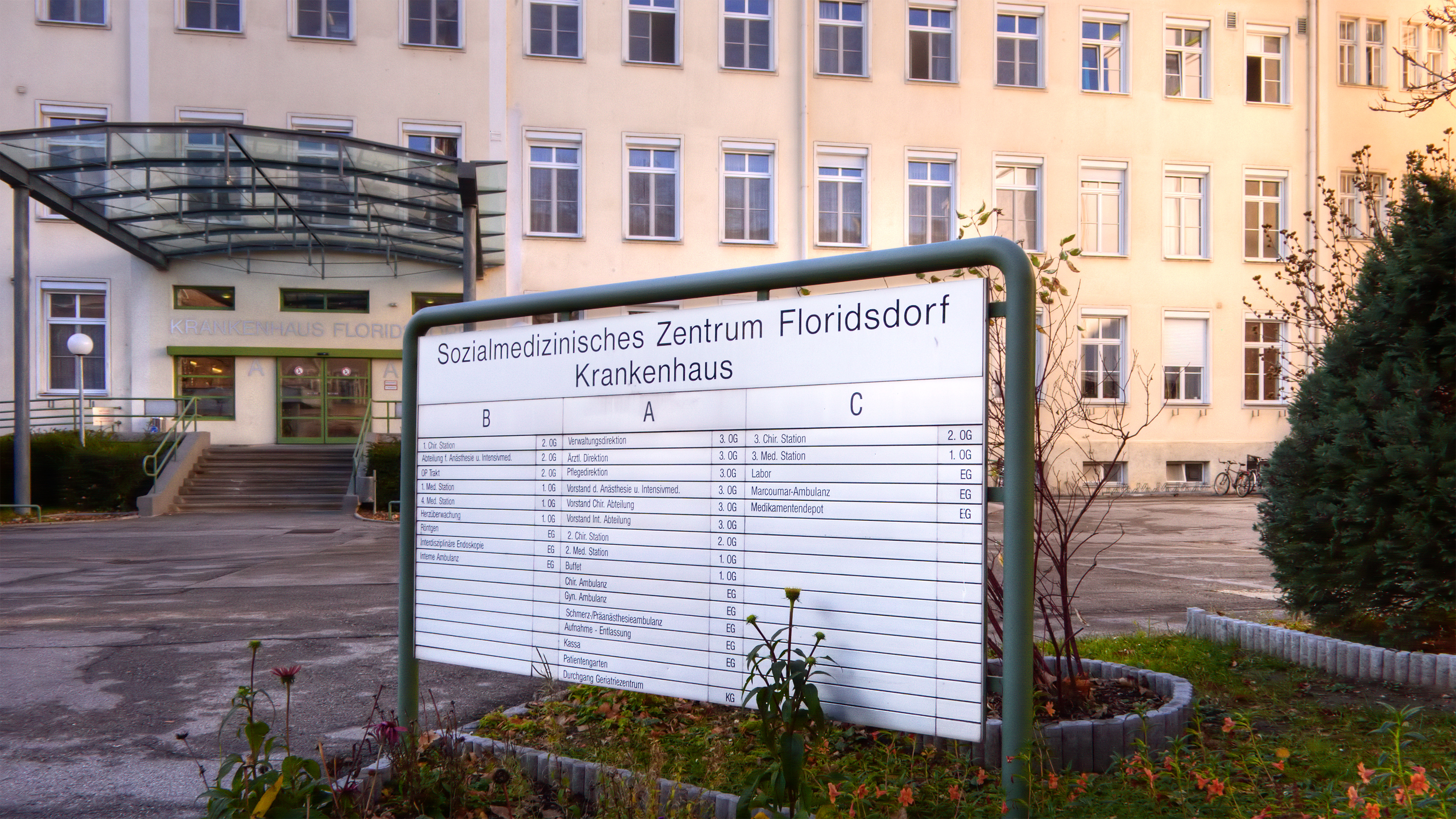 Sozialmedizinisches Zentrum in Vienna Floridsdorf